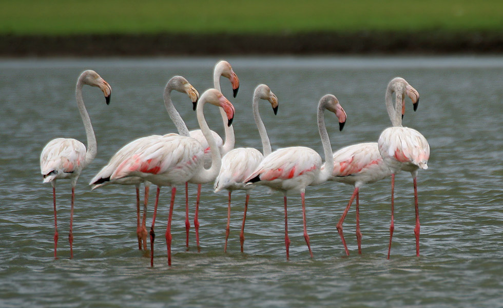 Greater Flamingo Phoenicopterus roseus - Sind: Lakka, Lakke jani, Hindi: Bog/Raaj hans, Sans: Bruhat balak, Bagg, Valiya rajahamsam, Bi: Charaj baggo, Ben: Kanmunthi, Kanthuti, Guj: Balo, Hunj, Moto hanj, Kutch: Hanj pakkhi, Mar: Rohit, Gnipankh, Pandav, Ta: Poonarai, Kizhi mooku naarai, Te: Pu konga, Samudrapu chiluka, Raja hamsa, Mal: Valiya poonara, Sinh: Siyak karaya- at Pocharam lake, Andhra Pradesh, India.